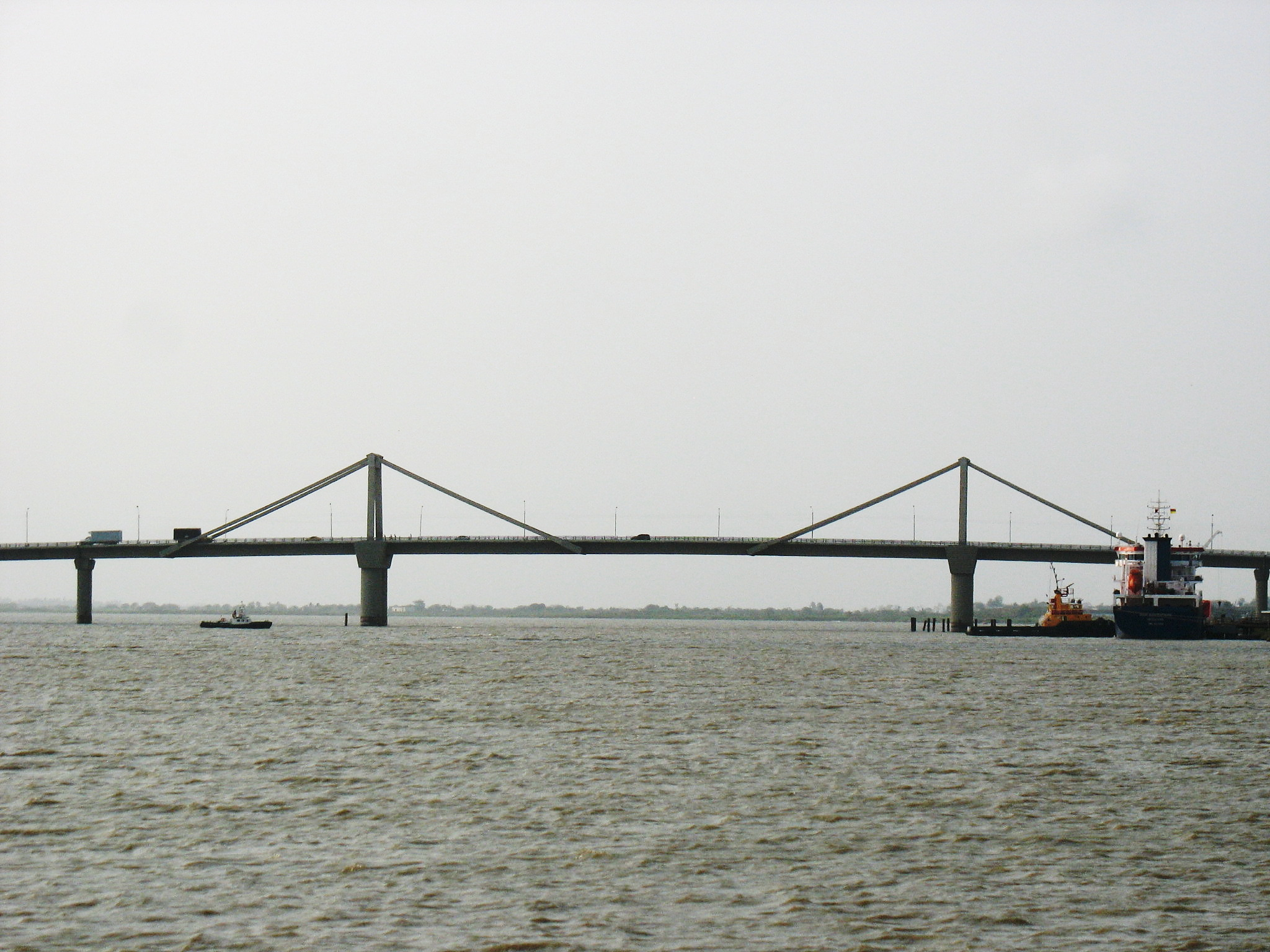 Puente Pumarejo in Barranquilla, Columbia (reduced grey)